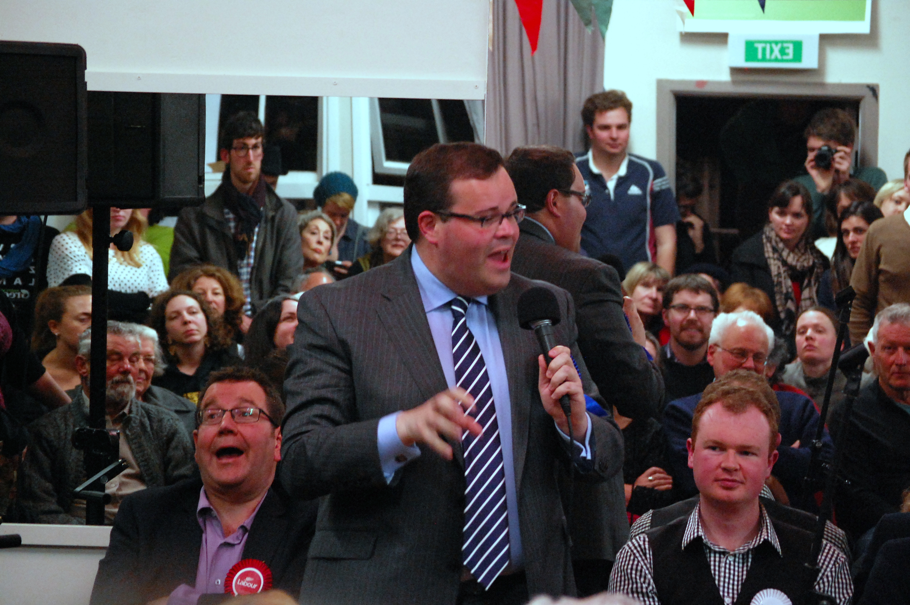 Grant Robertston of Labour (left) and Paul Foster-Bell (centre) of the National Party.